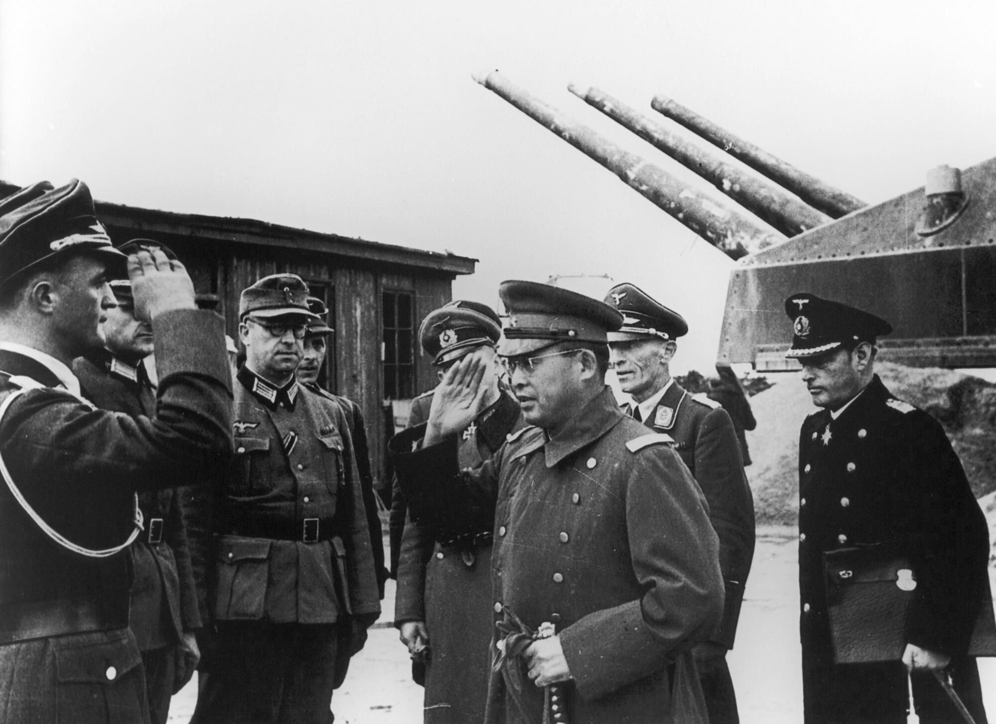 This is a photo of several high ranking officers visiting Fjell festning (MKB 11/504) probably some time in 1943, then the main armament (28,3 mm triple gun turrent form battleship "Gneisenau") were finished. The turret with the three cannons can be seen in the background. The officer in the front is Makoto Onodera (japanese Military Attaché to Sweden). Behind him is Lieutenant Colonel Eberhard Freiherr von Zedlitz und Neukrich (C-in-C Luftwaffe Feldregiment 502.), and to the right is Fregattenkapitän doktor Robert Morath (Seekommandant in Bergen). Behind Onoderas hand (raised in salute) is General Nikolaus von Falkenhorst (C-in-C German military forces in Norway).